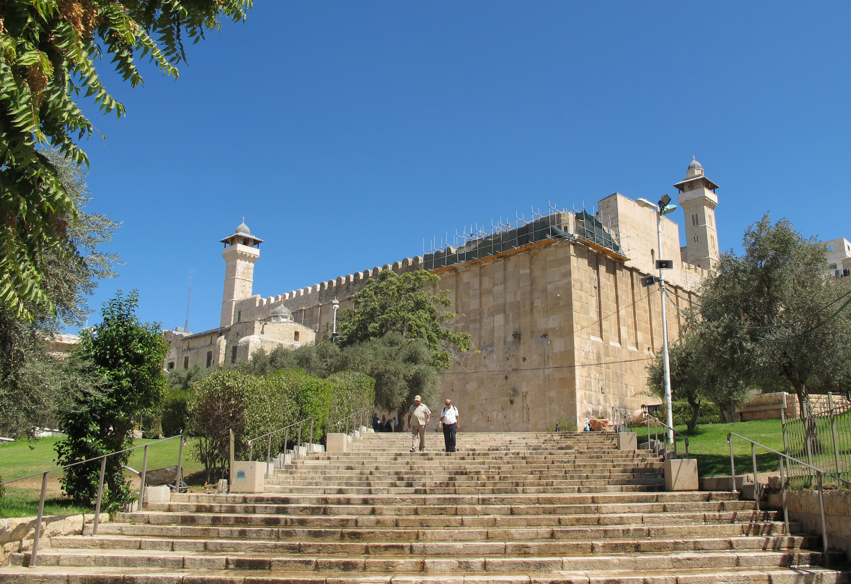 Cave of the Patriarchs in Hebron Palestine